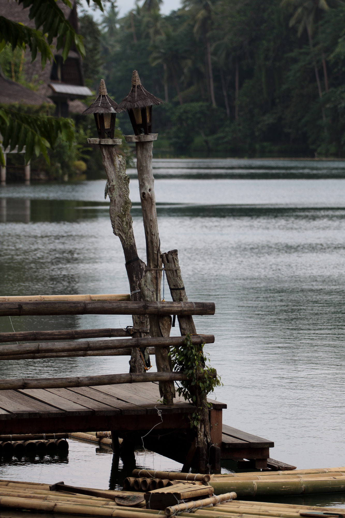 A view of the Lake Labasin, at Villa Escudero